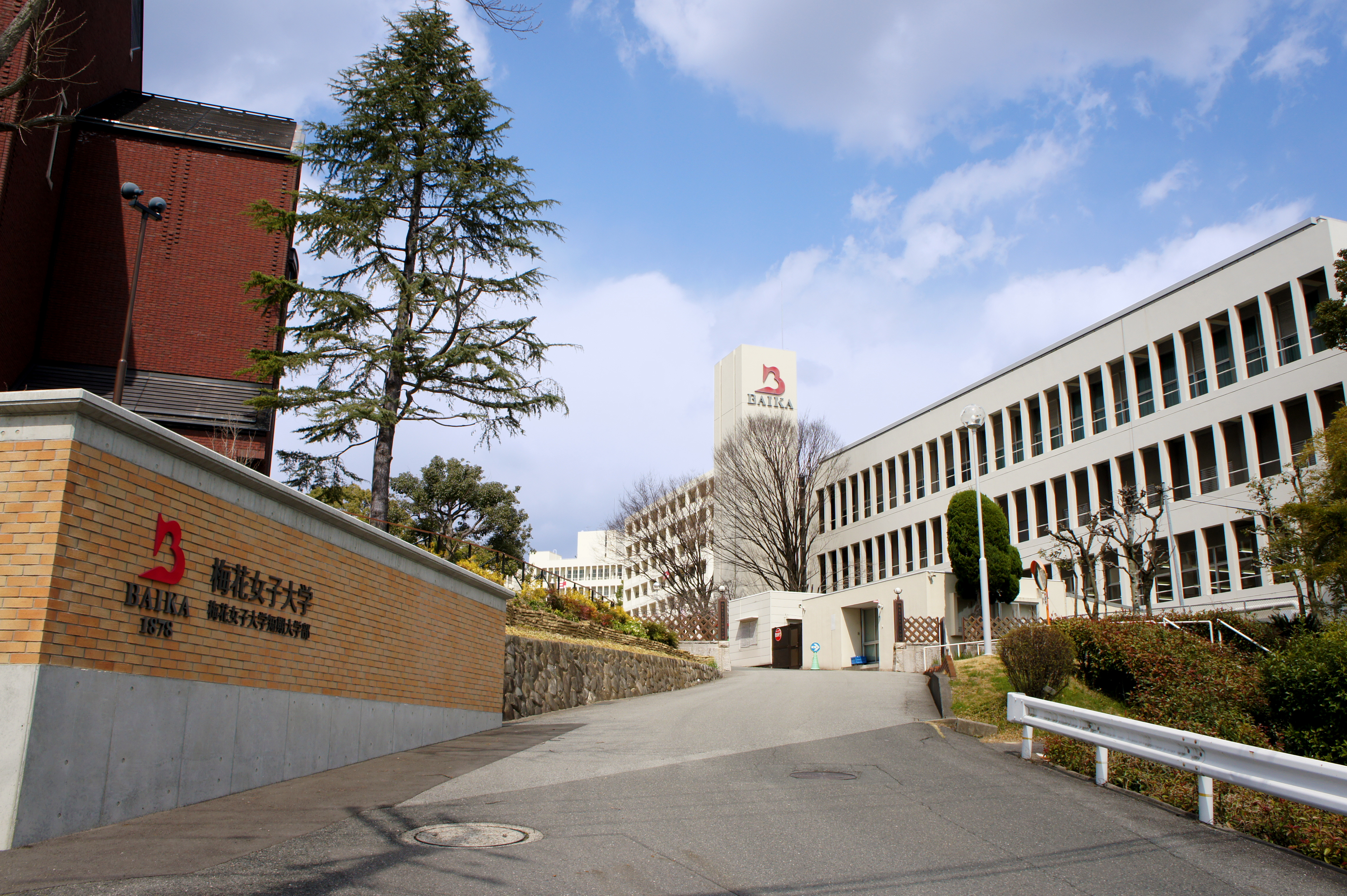 Baika Women's University and Baika Junior College, 2-19-5 Shukunosho Ibaraki-City Osaka Japan.